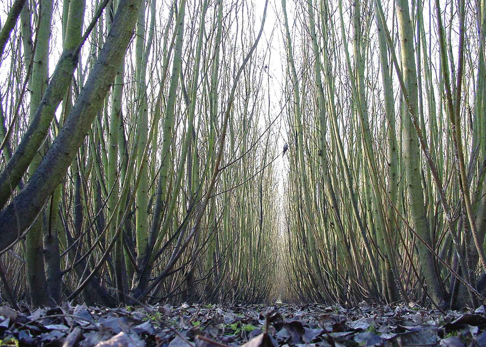 Coppice short rotation willow (clones), irrigated by water from the purification plant of Villeneuve d'Ascq (town, in northern France) for final purification of water (nitrates, phosphates). This coppice was used to produce wood chips to fuel a boiler-wood